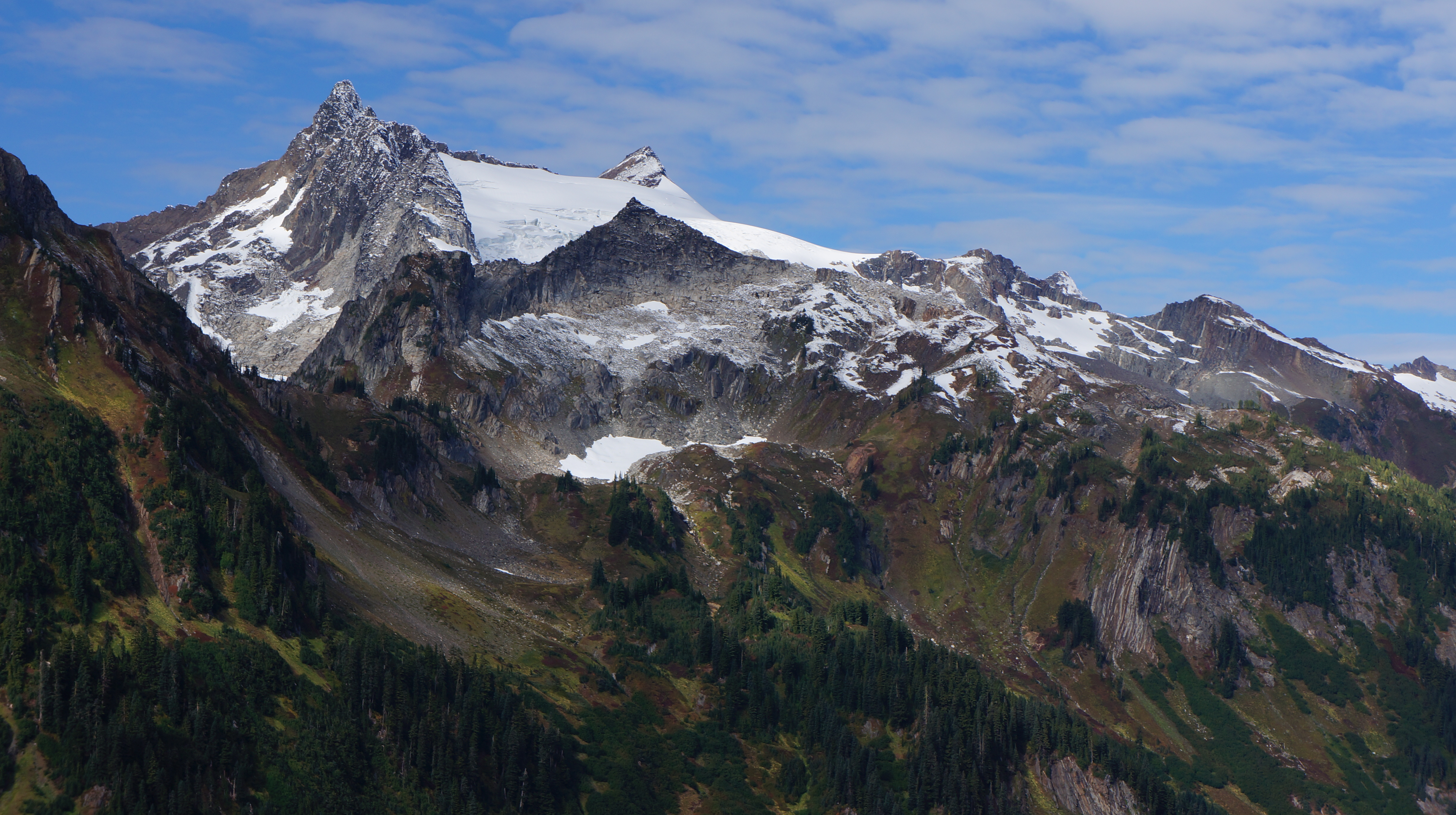 Clark Mountain of North Cascades